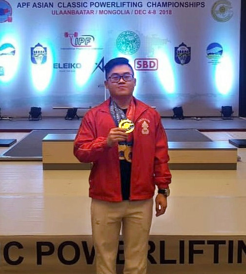 Matthias Yao after winning 4 Golds at the 2018 Asian Championships held in Mongolia